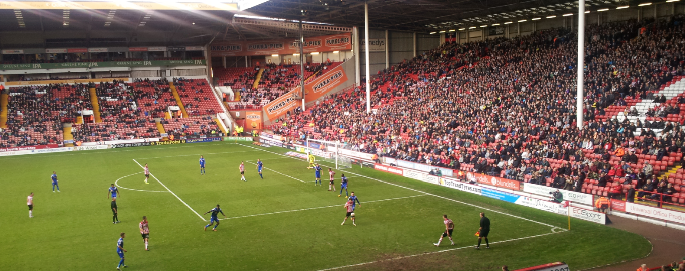 Sheffield United FC v Crewe Alexandra FC on 27 October 2013.